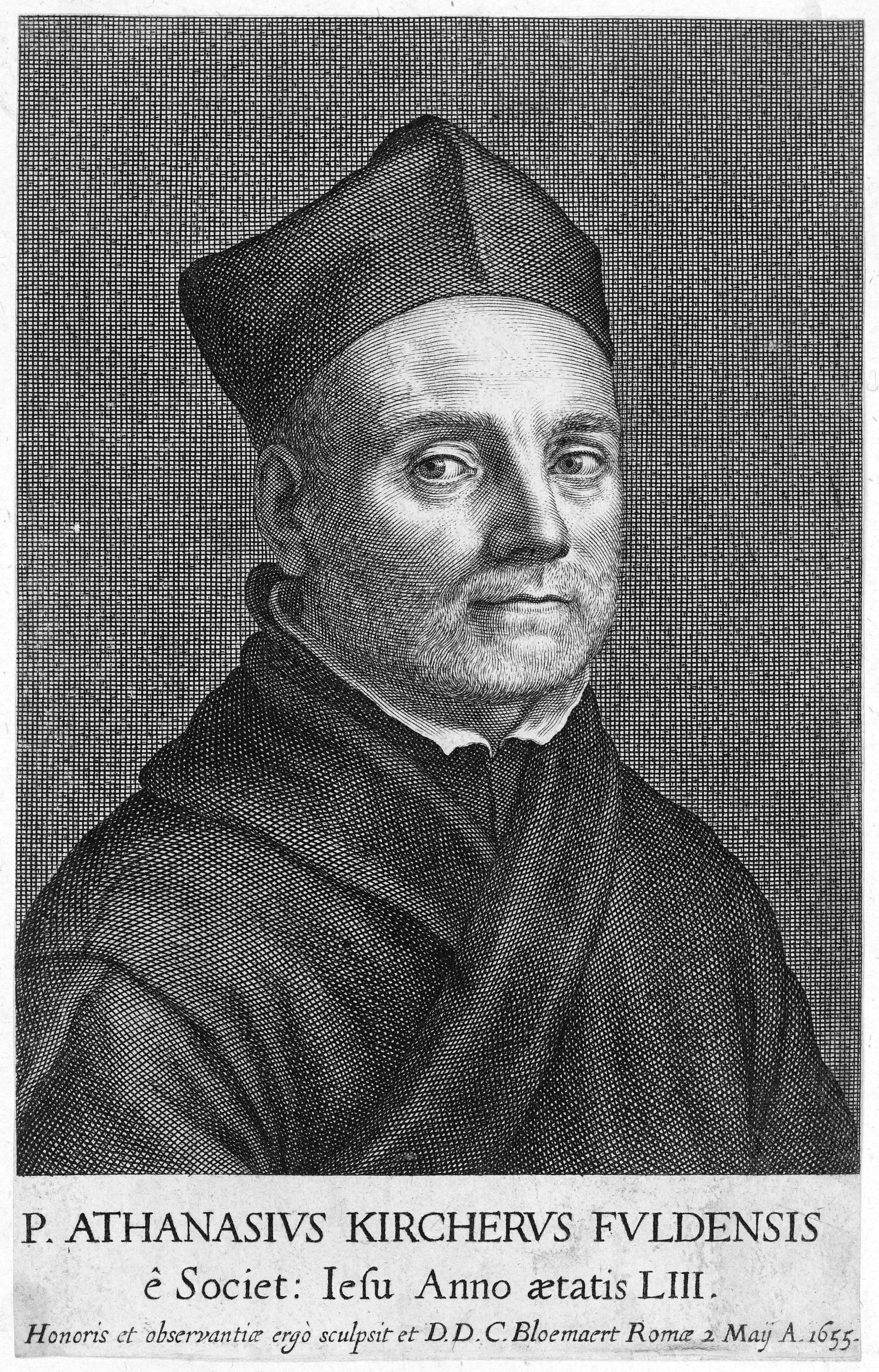 Depicted person: Athanasius Kircher (1602-1680)